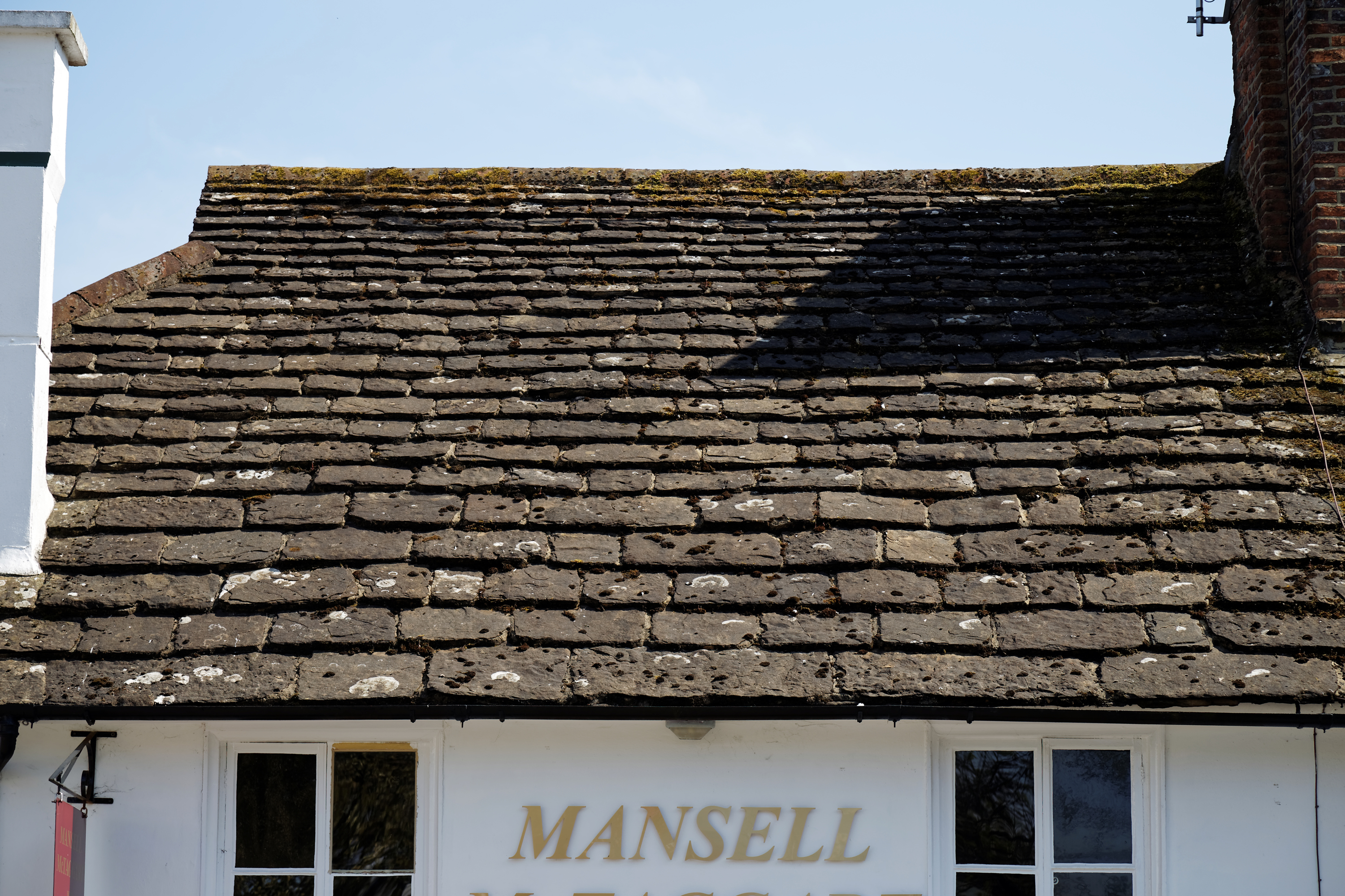 A vernacular roof of local Horsham Stone in Carfax at the centre of Horsham, West Sussex, England.Camera: Canon EOS 6D with Canon EF 24-105mm F4L IS USM lens.Software: large RAW file lens-corrected, optimized and downsized with DxO OpticsPro 10 Elite, Viewpoint 2, and Adobe Photoshop CS2.